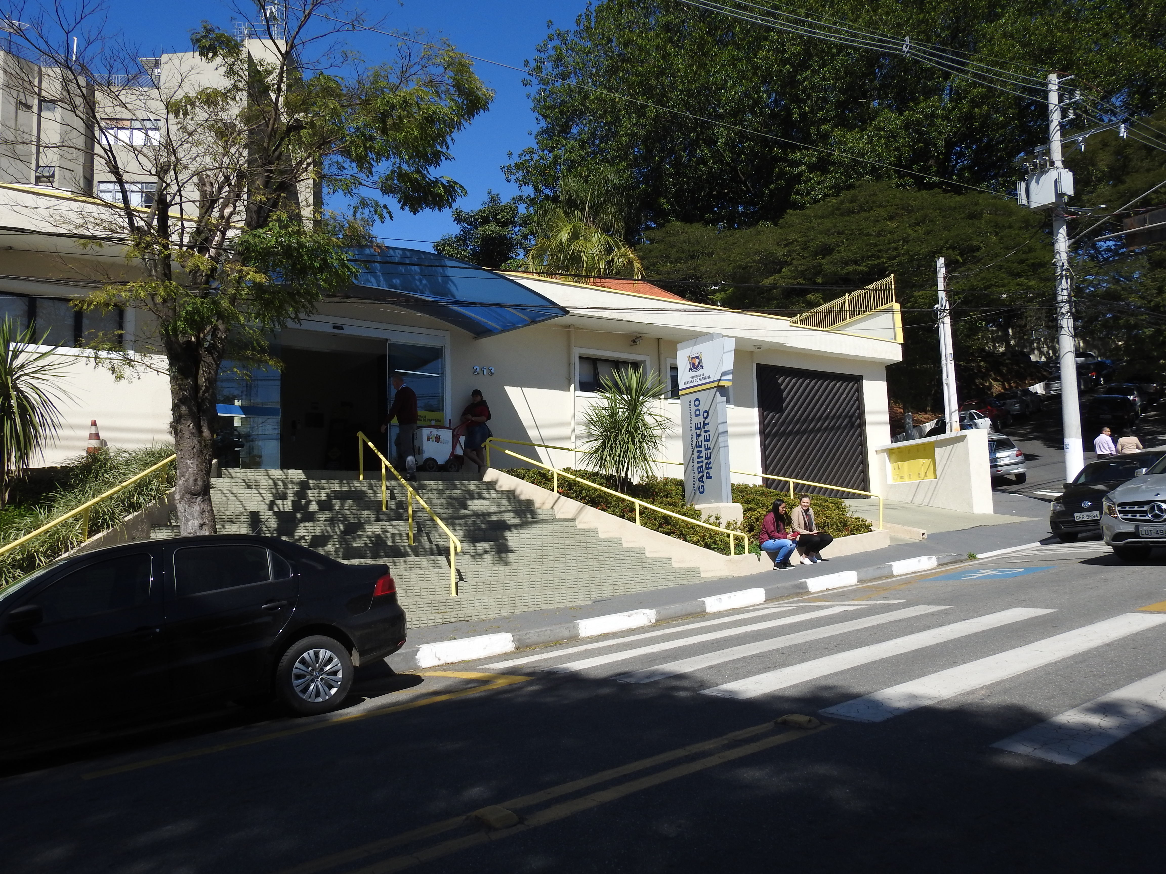 Wiki Takes Santana de Parnaíba